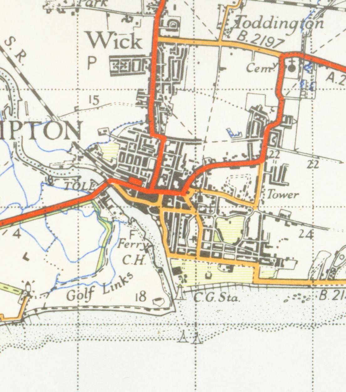 Map of Littlehampton from 1946 scale 1 inch to the mile scanned at 600DPI